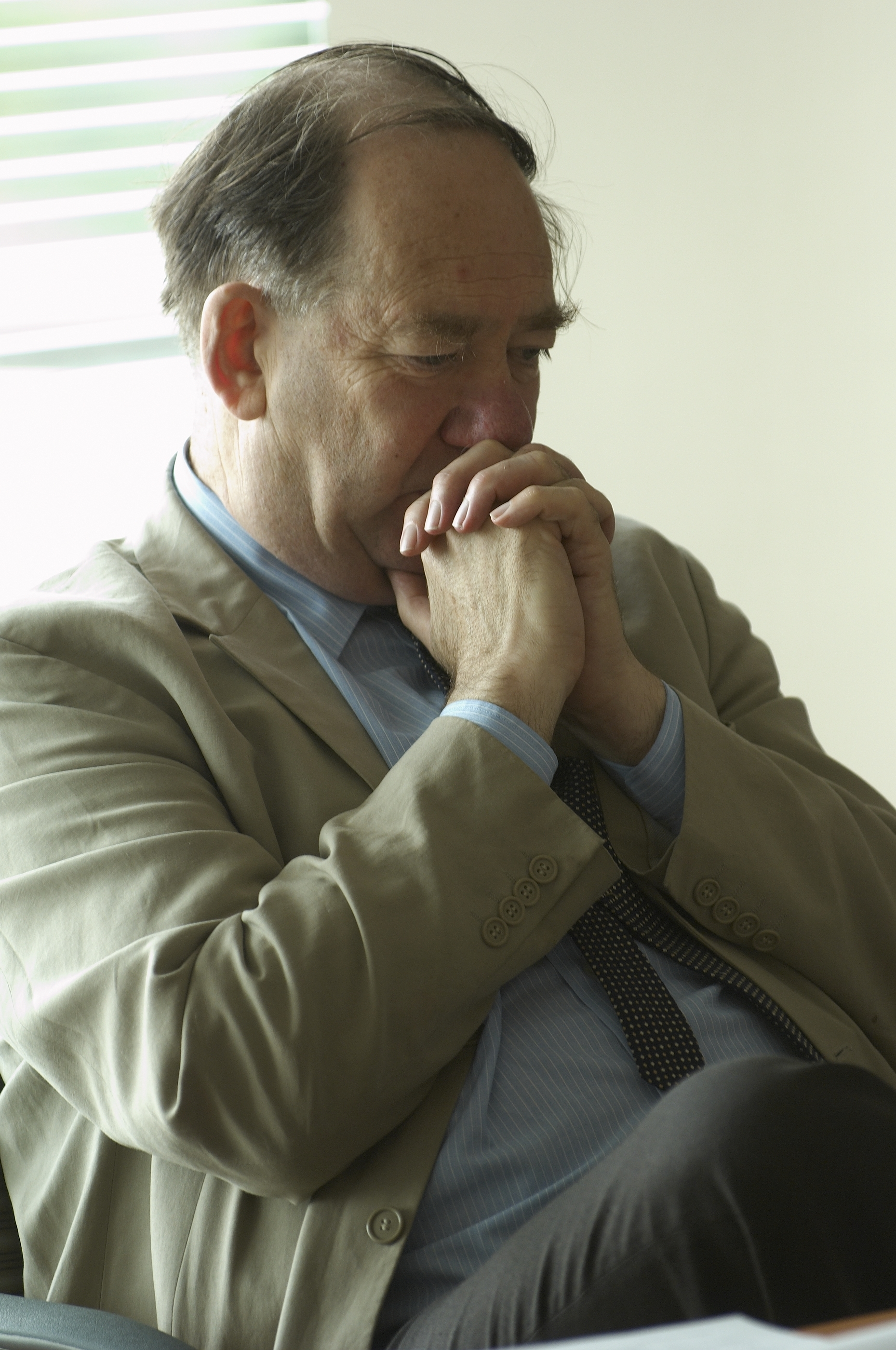 Photograph of chemist and historian Robert G. W. Anderson at the Chemical Heritage Foundation, June 19, 2006.